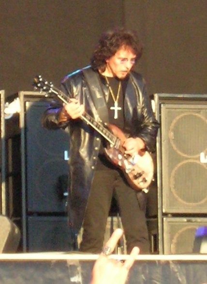 Tony Iommi on stage, Nijmegen